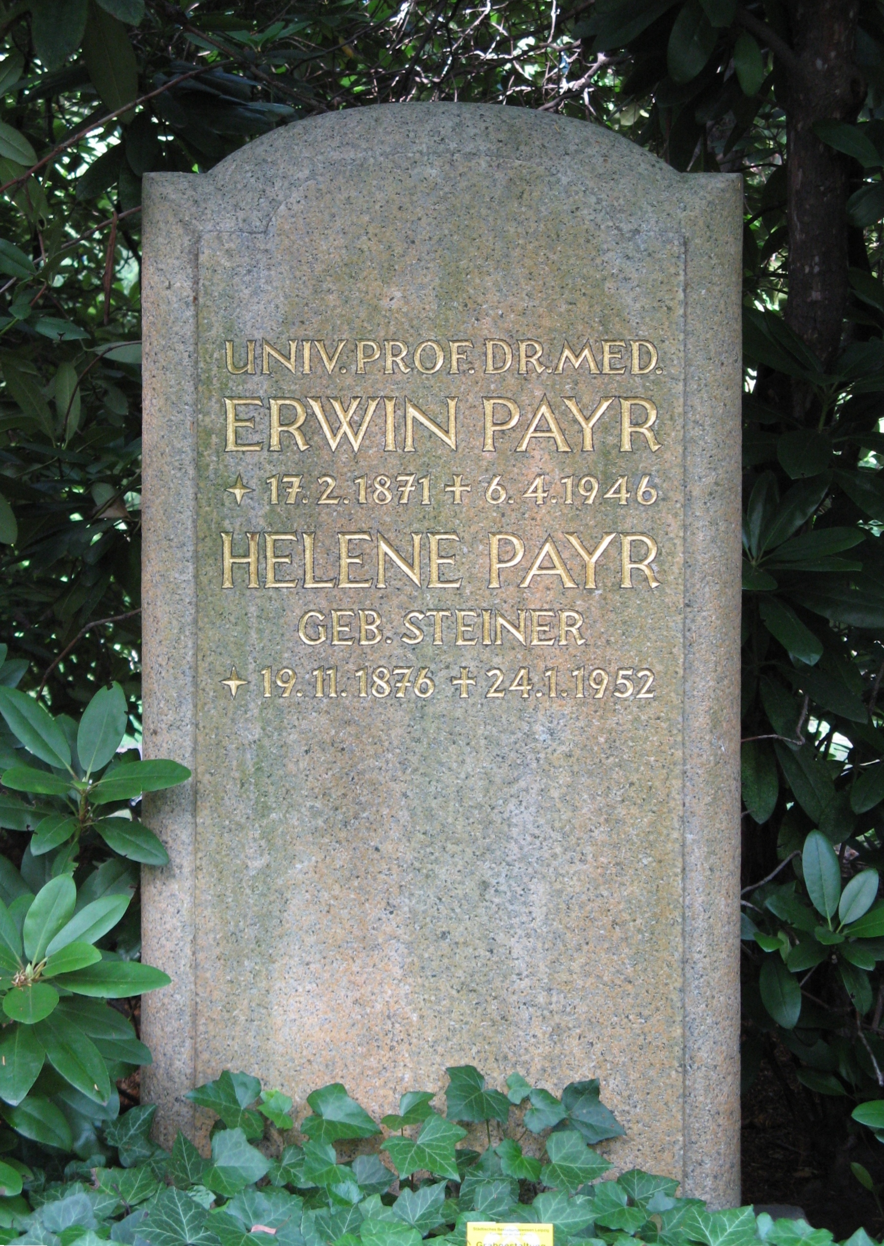 Gravestone of German surgeon Erwin Payr and his wife Helene at South Cemetery Leipzig